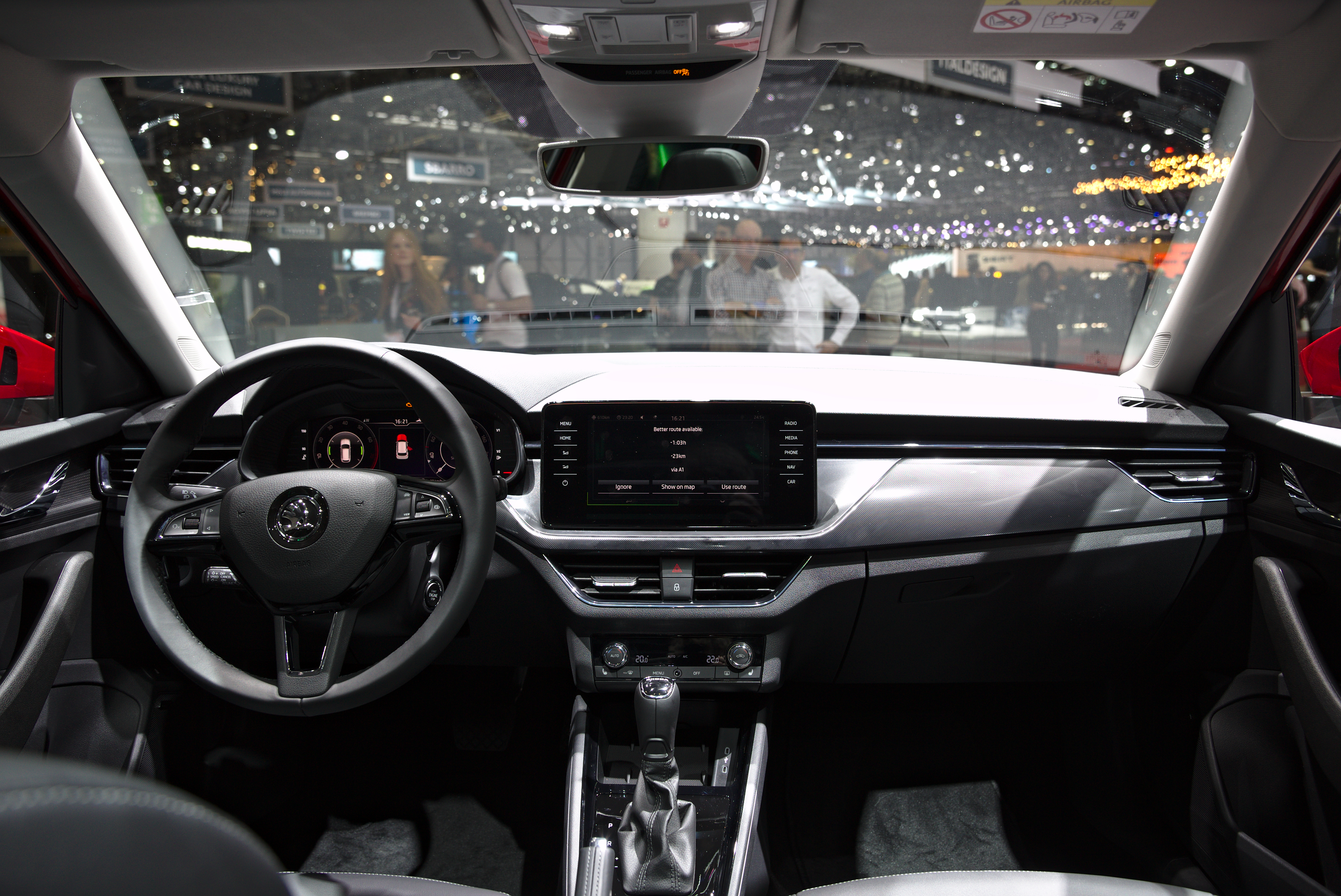 Škoda Kamiq at Geneva Motor Show 2019